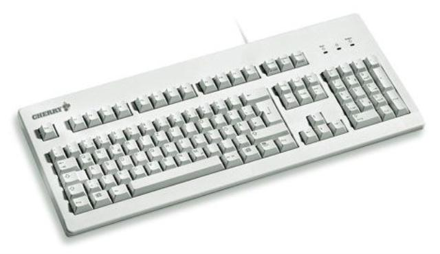 Cherry keyboard with big "Enter" key and additional key near left "Shift"